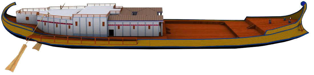 A nemi ship, an ancient Roman ship, as reconstructed.